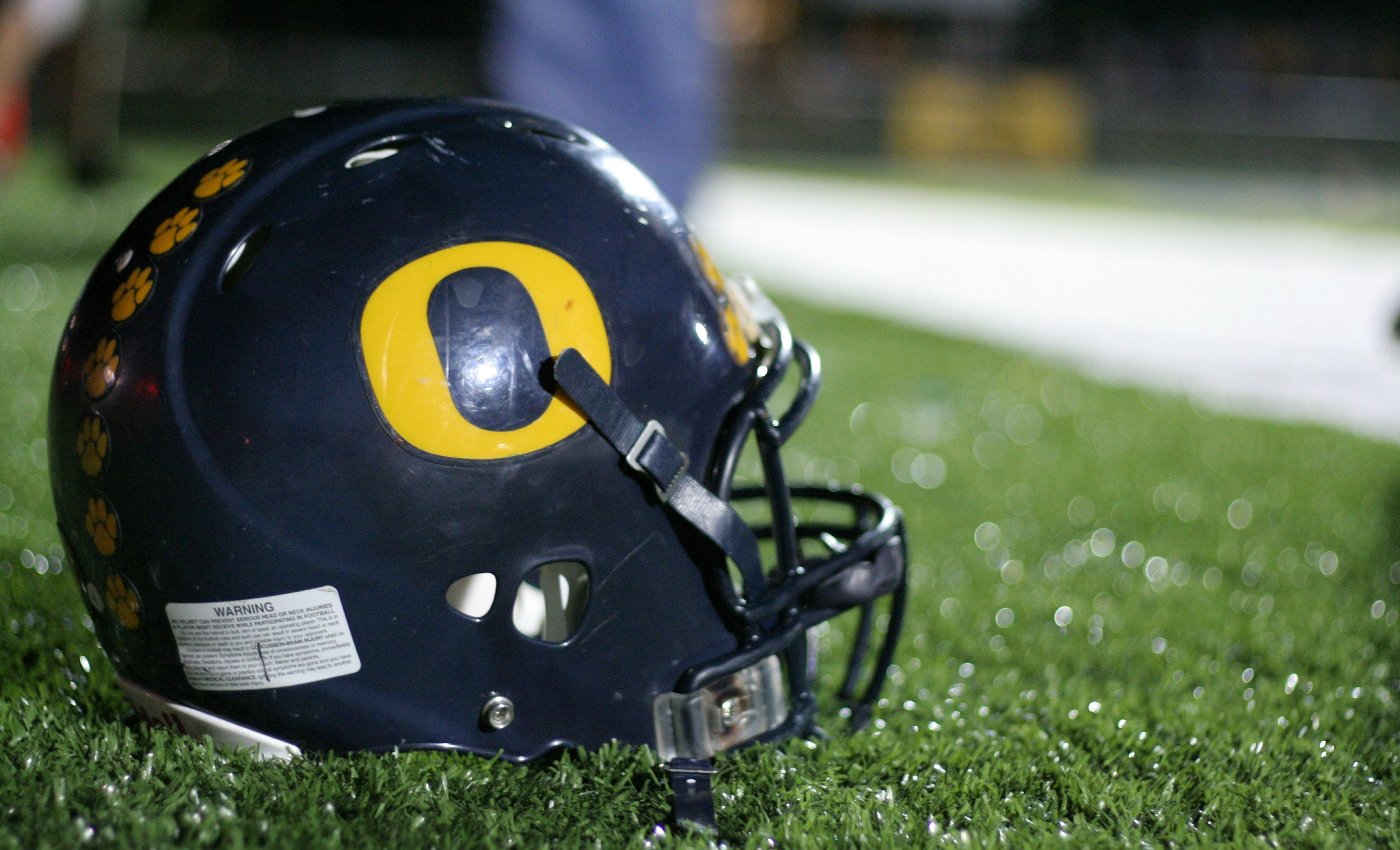 Riddell Revolution Helmet, of the O'Fallon Panthers, Illinois High School Association